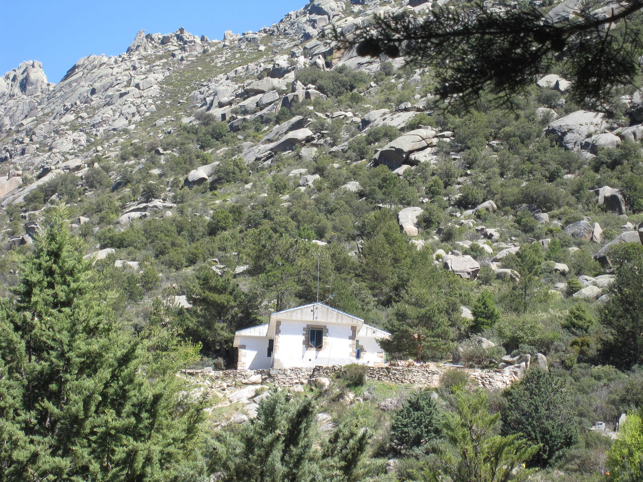 Refuge Giner de los Ríos, La Pedriza (Guadarrama mountain range, central Spain), with Juniperus thurifera trees.